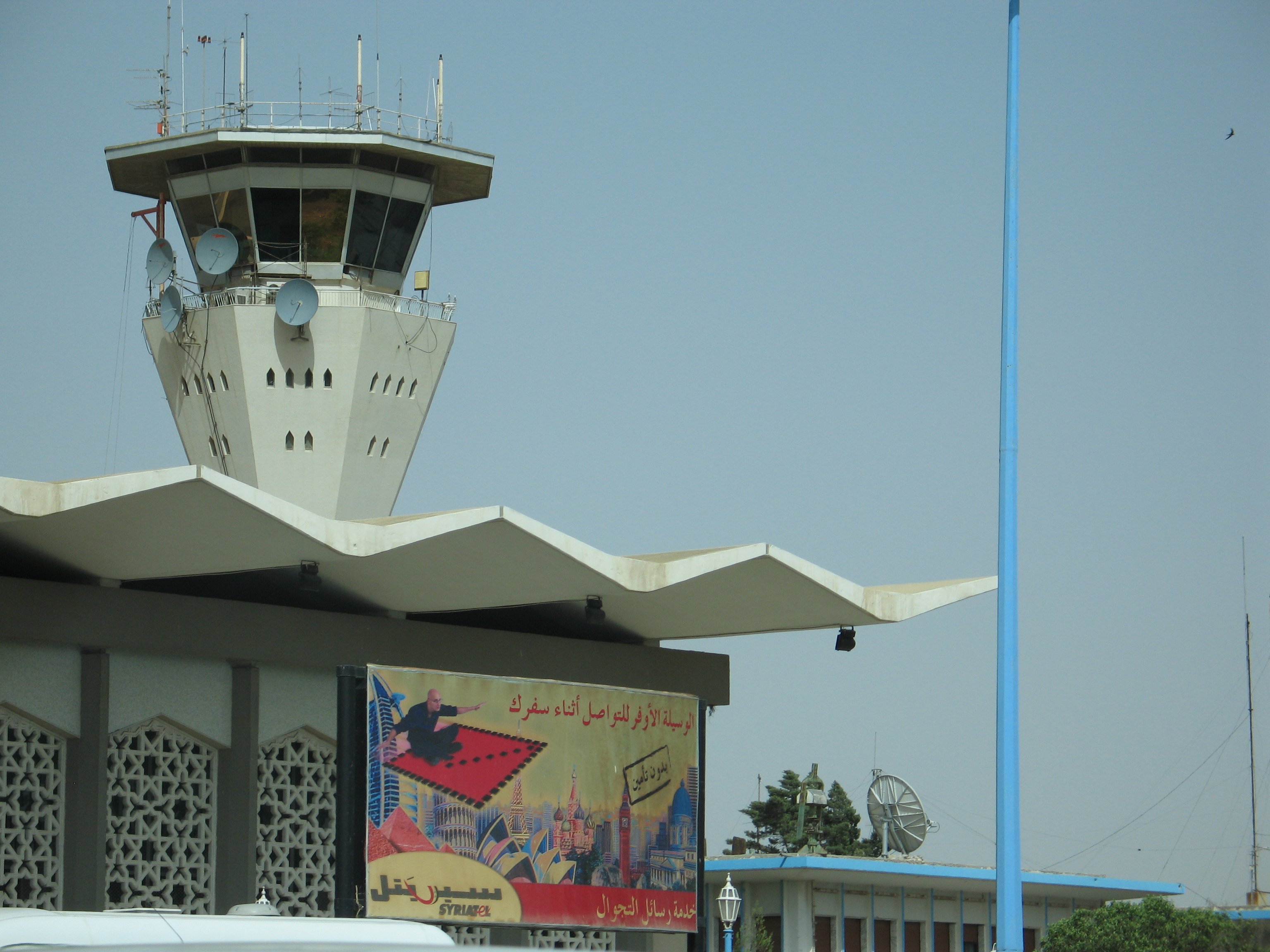 Damascus airport control tower.